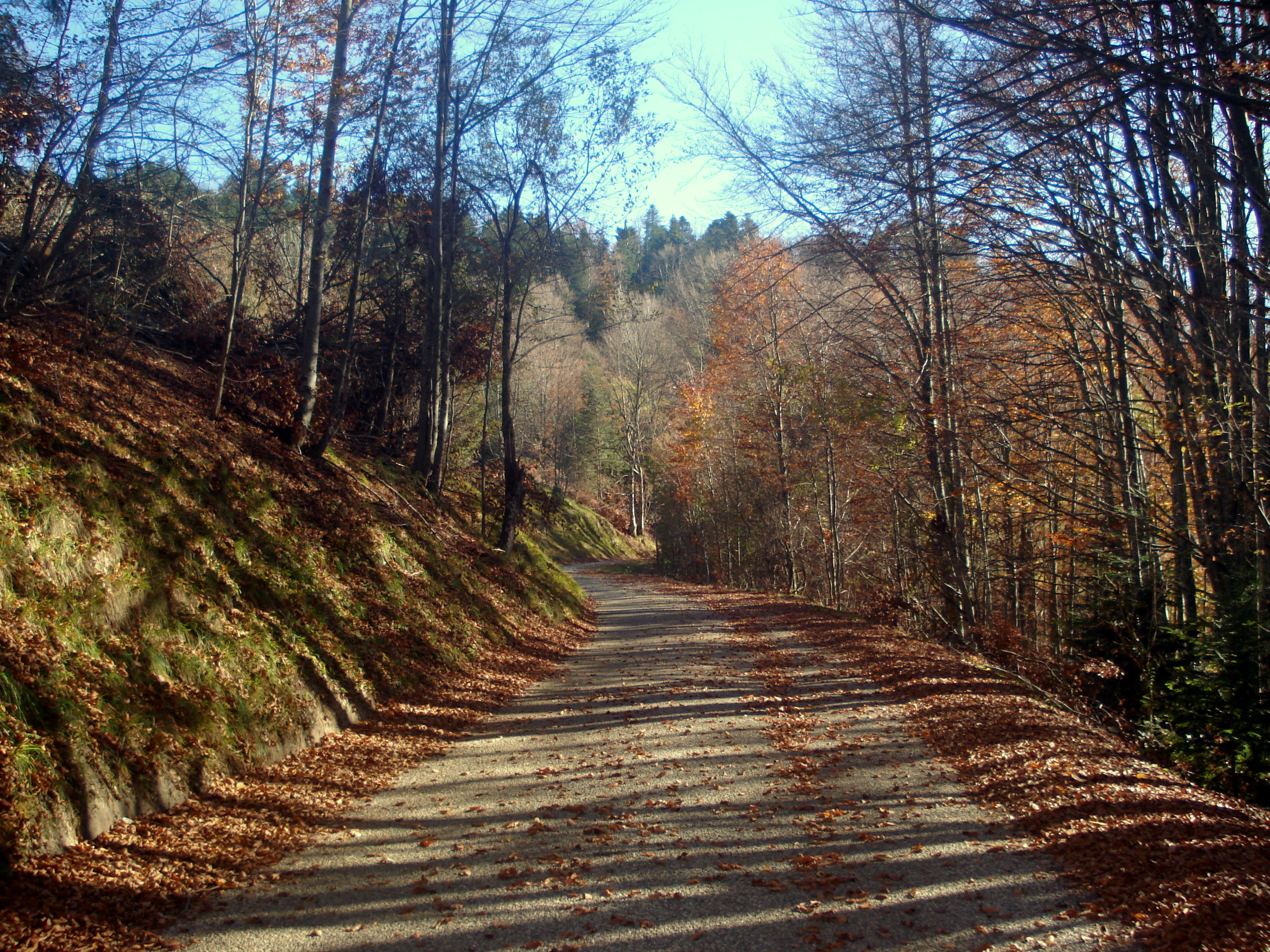 near Col de Belleroche.